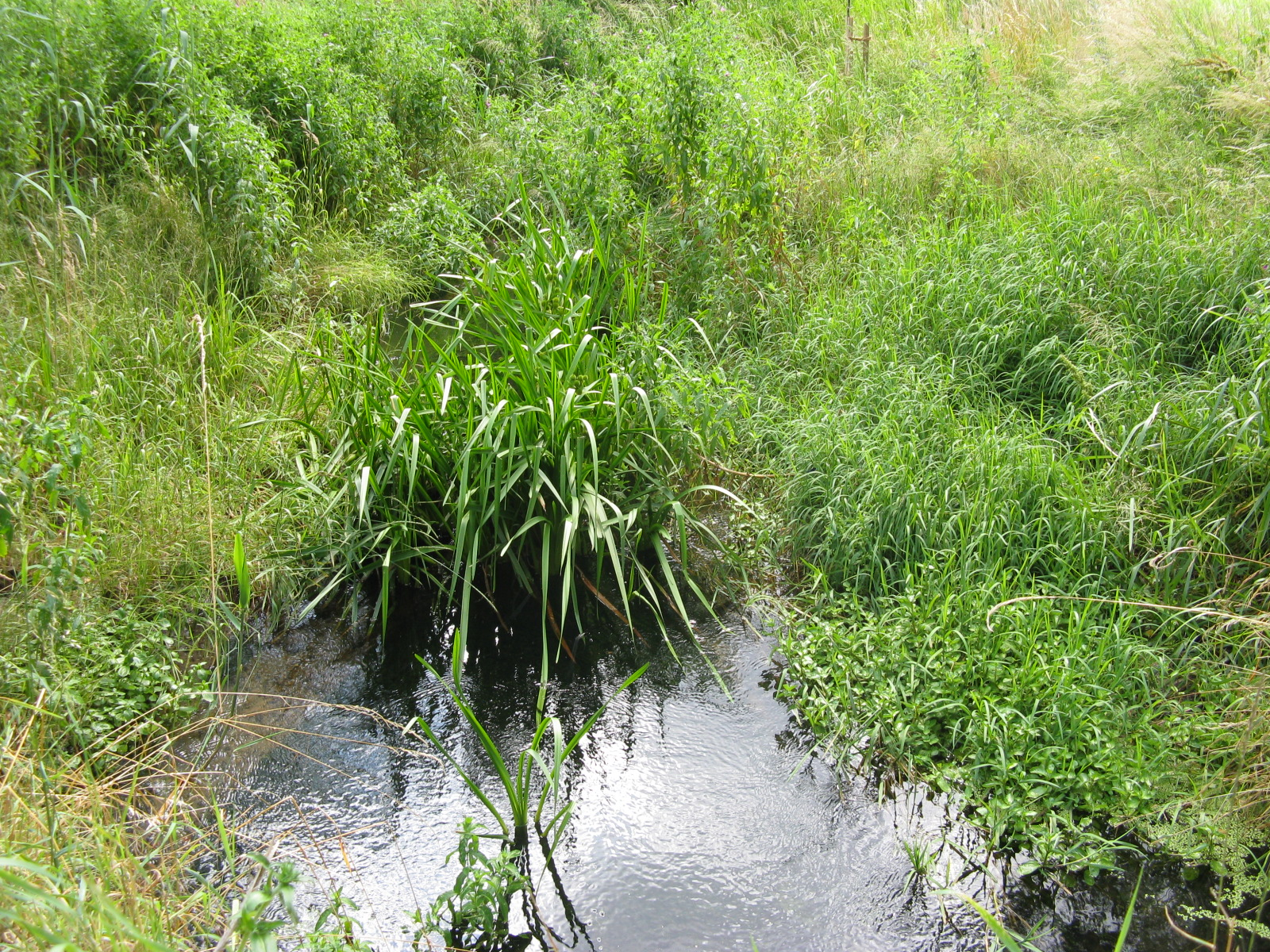 Nebel river in Linstow, district Rostock, Mecklenburg-Vorpommern, Germany